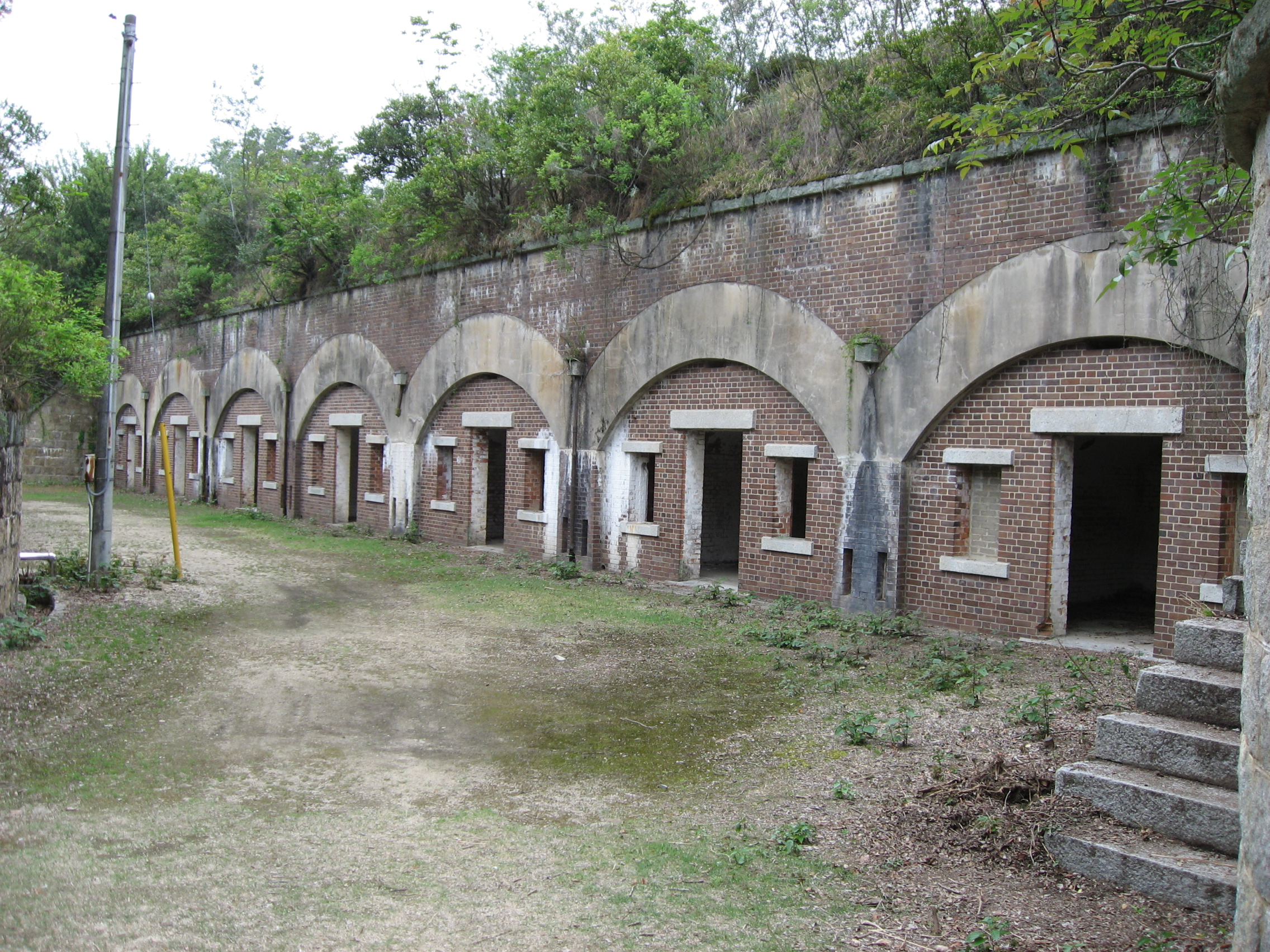 Ruins of Batteries in Ōkunoshima.